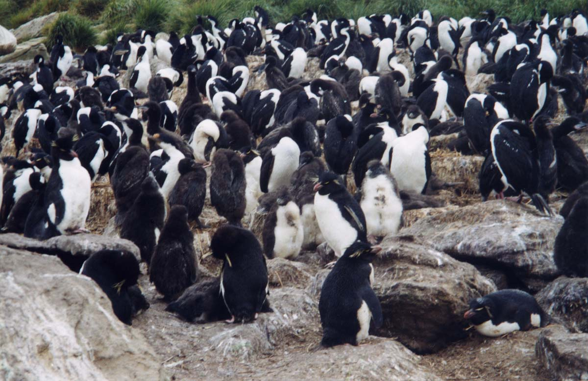 Photo of Eudyptes chrysocome (rockhopper penguin) rookery, New Island, Falkland Islands